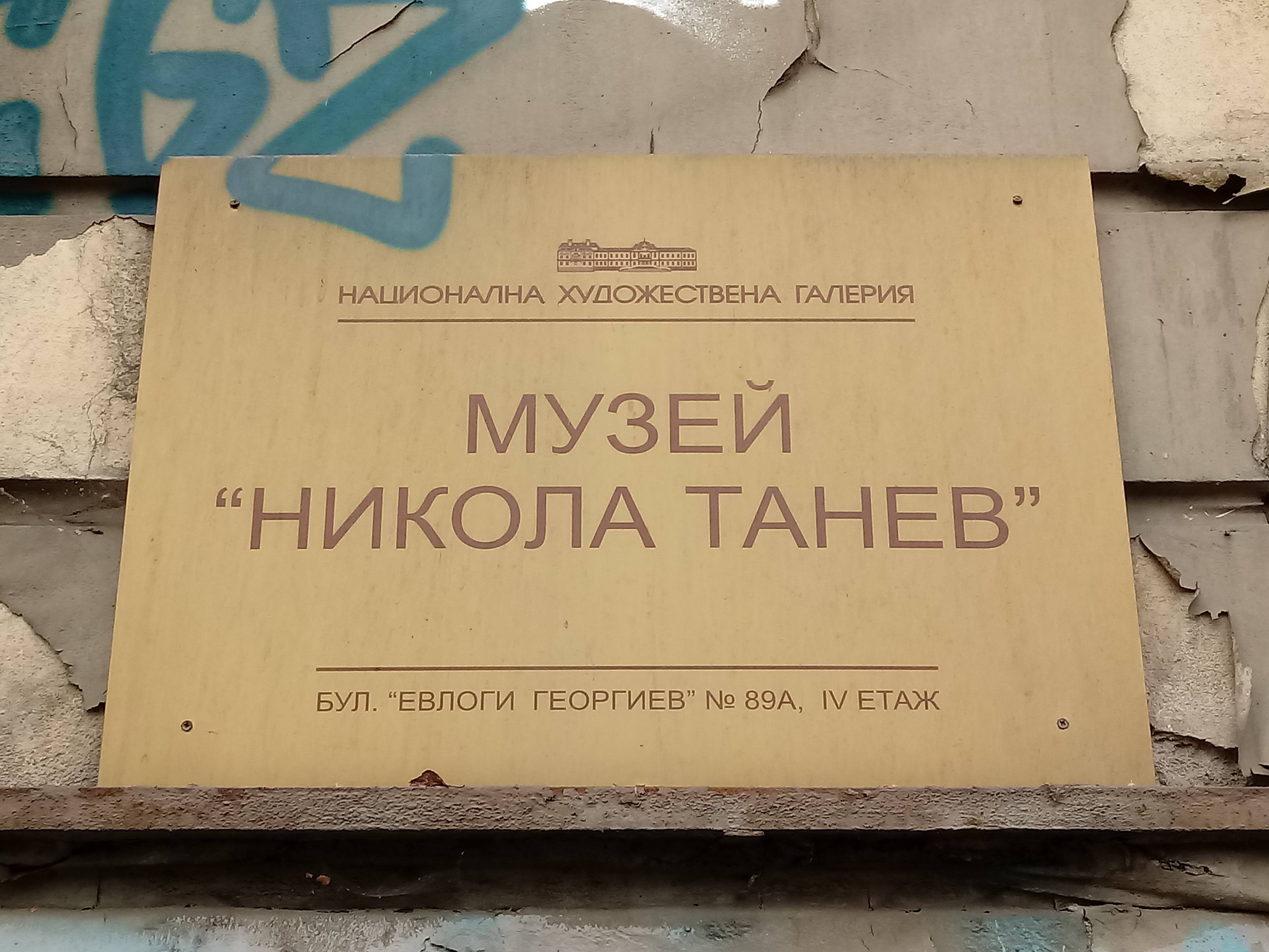 Nikola Tanev museum plaque, 89A Evlogi & Hristo Georgievi Blvd., Sofia